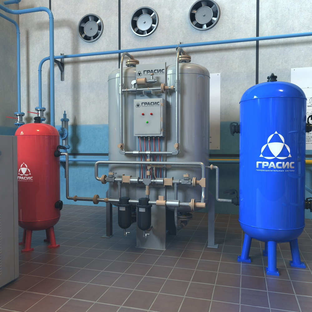 Adsorbtion nitrogen generator produced by company GRASYS.